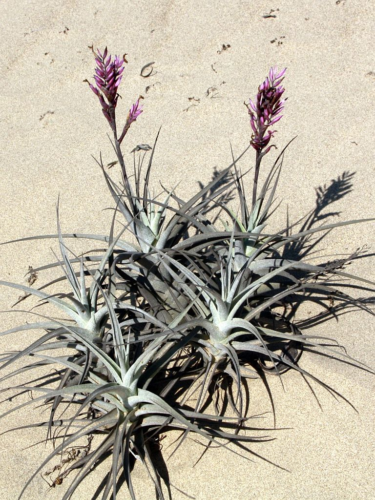 Tillandsia purpurea, in habitat in Peru, exact location unknown.